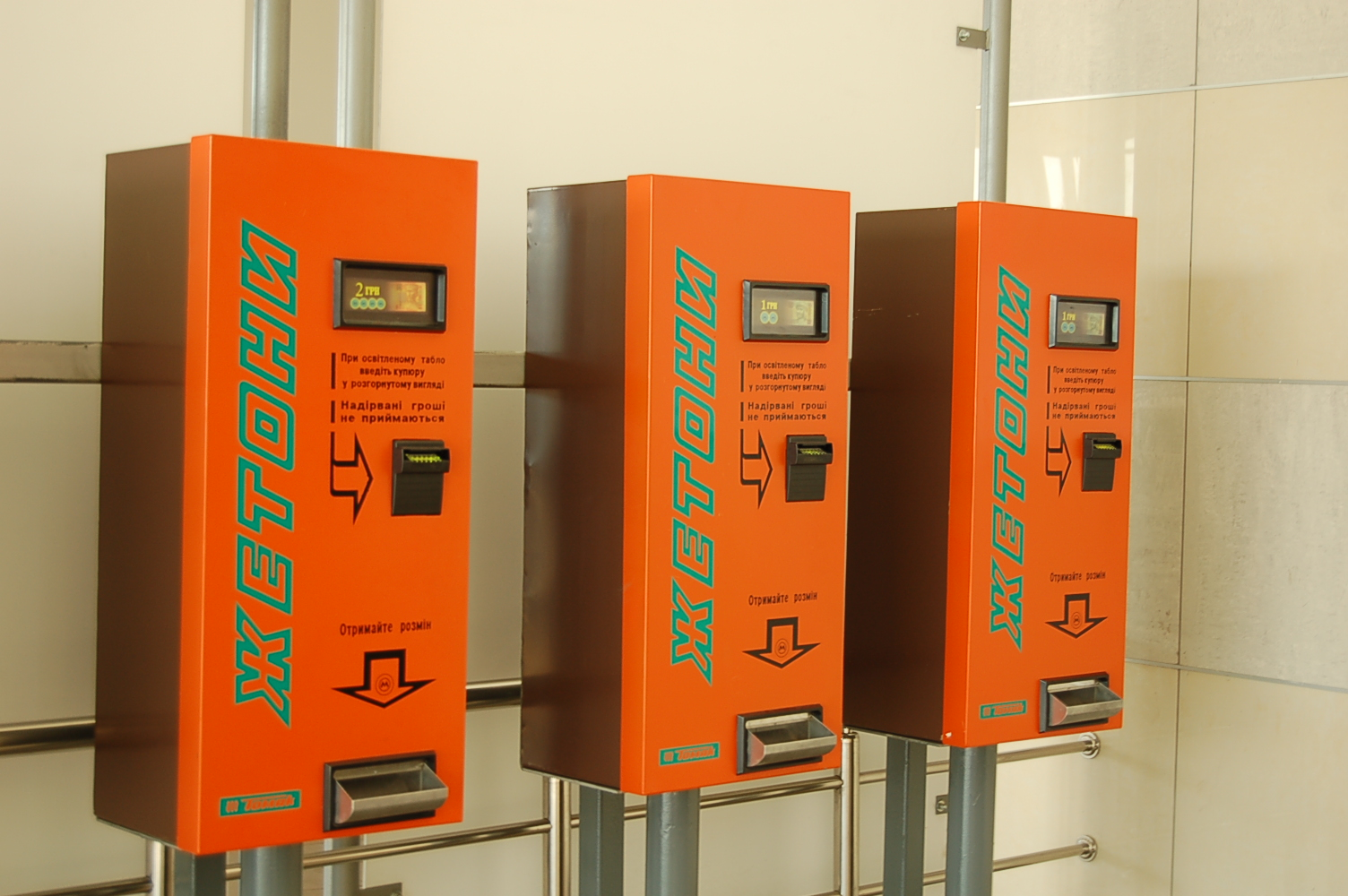 automatic distribution counters a subway